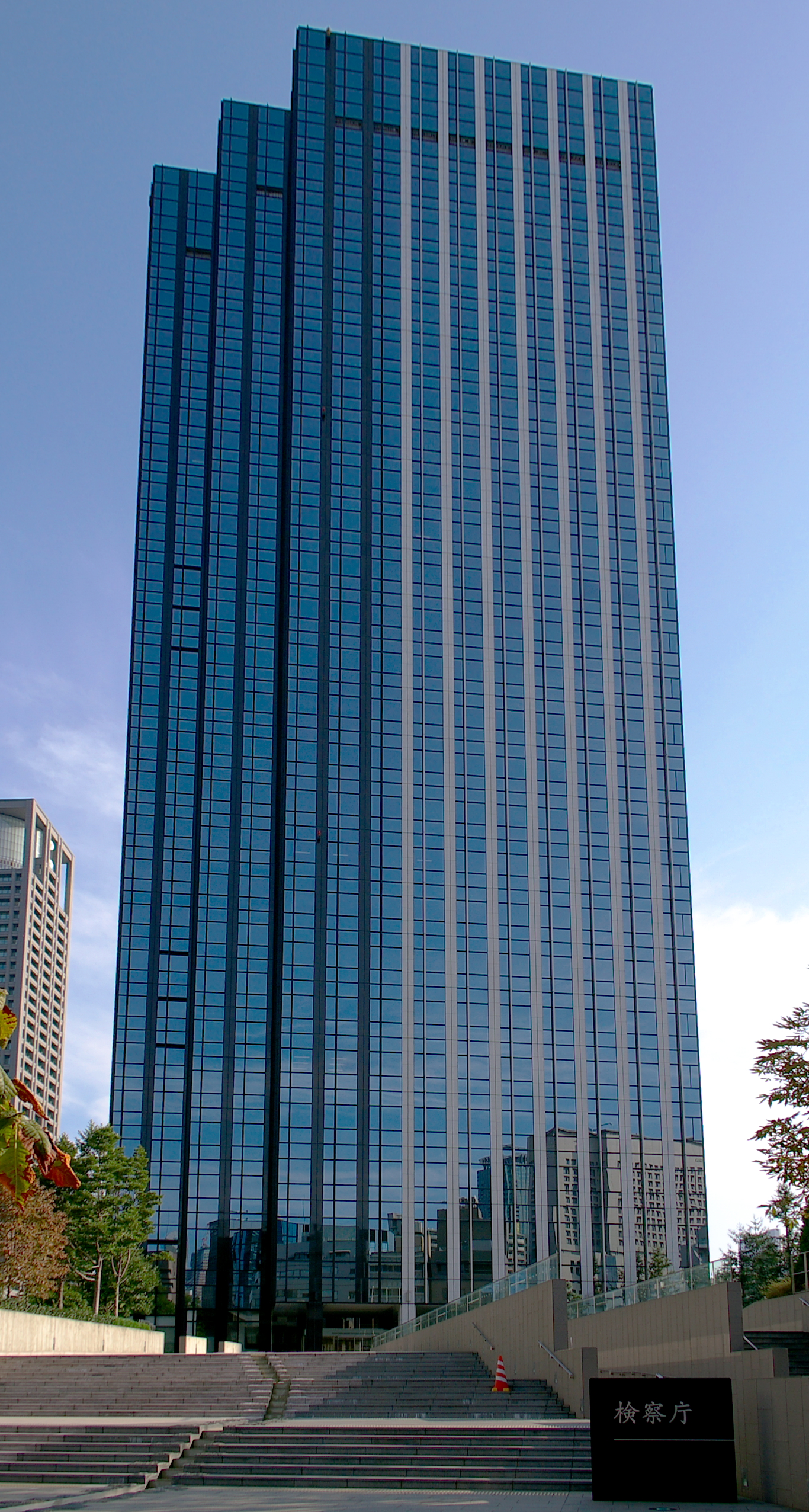 Photograph of Osaka Nakanoshima National Government Building, including Osaka High Public Prosecutors Office and Osaka District Public Prosecutors Office, in Fukushima-ku, Osaka, Osaka Prefecture, Japan.